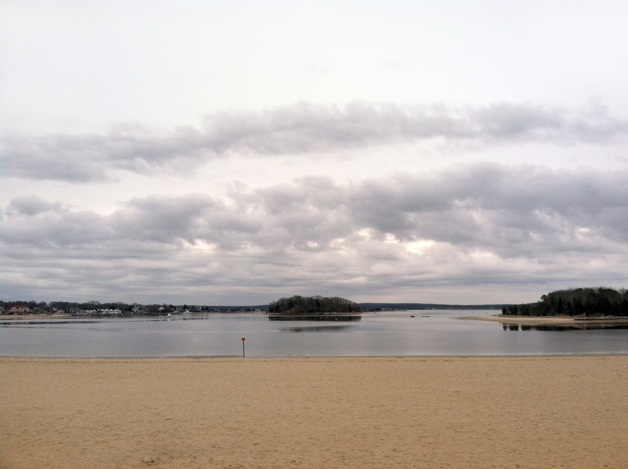 The coast of Onset Beach.